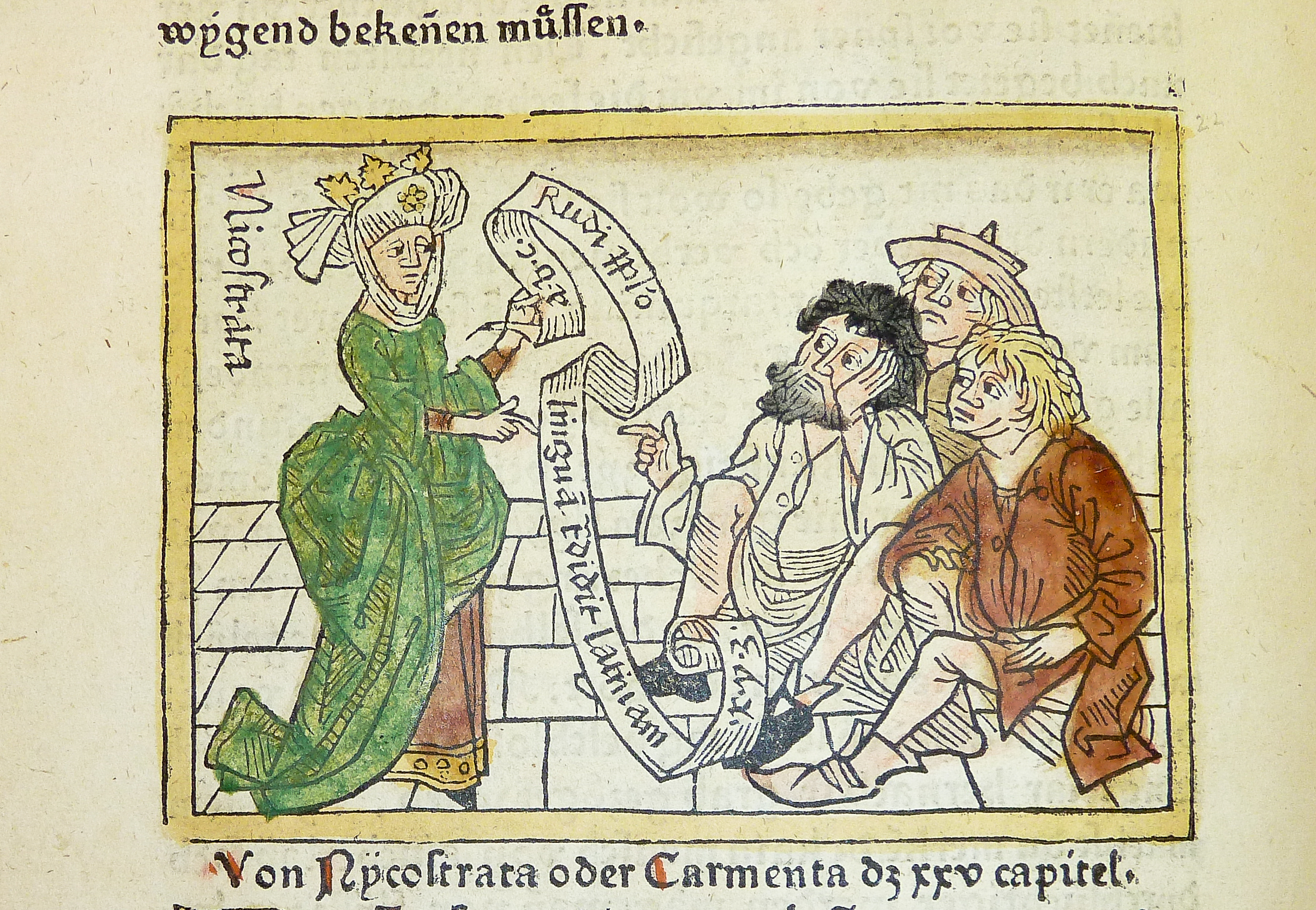 Woodcut illustration (leaf [e]4v, f. xxxiiij) of Nicostrata (also Nicostrate or Carmenta), inventor of the alphabet, hand-colored in red, green, yellow and black, from an incunable German translation by Heinrich Steinhöwel of Giovanni Boccaccio's De mulieribus claris, printed by Johannes Zainer at Ulm ca. 1474 (cf. ISTC ib00720000). One of 76 woodcut illustrations (1 on leaf [e]8v dated 1473), each 80 x 110 mm., depicting scenes from the life of the women chronicled (for a full list of subjects, cf. W.L. Schreiber, Handbuch der Holz- und Metallschnitte des XV. Jahrhunderts (Nendeln: Kraus Reprints, 1969), no. 3506). "Pour la première moitie le nom se trouve inscrit à côte de la tête de chaque femme, pour le reste il es ajouté entre les deux réglettes. Il n'y en a que trois, qui n'ont qu'un seul trait carré."--Schreiber. Established form: Zainer, Johannes, ‡d d. 1541?. Penn Libraries call number: Inc B-720 All images from this book Penn Libraries catalog record